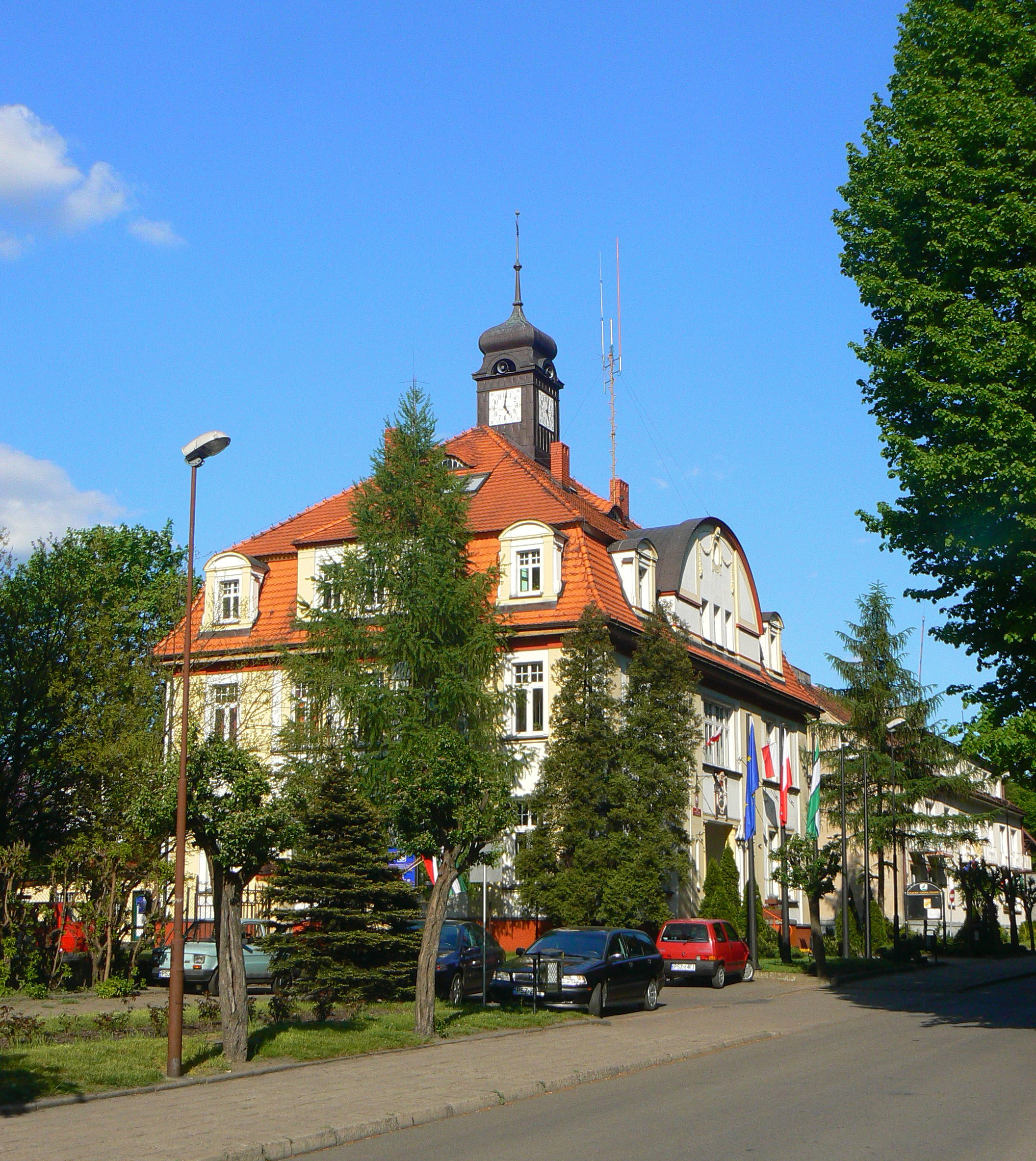 Town hall in Wronki